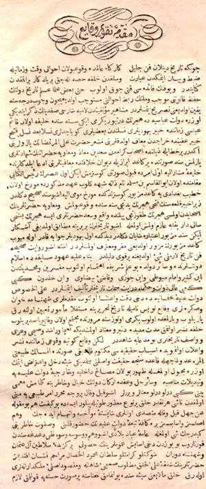 Introduction to the reprint of the Takvim-i Vekayi, newspaper of the Ottoman Empire